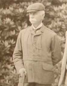 Photo from very early 20th century of Sir James Hills-Johnes at Dolaucothi. Copyright (if it still exists) would belong to Mrs R Shann and she is happy for the picture to enter the public domain. This is a photo taken by me of an original photograph taken by one of my ancestors and I am happy to release it to the public domain.